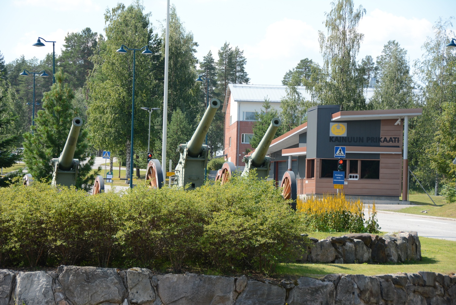 The main entrance of Kainuu Brigade in the city of Kajaani, Finland.